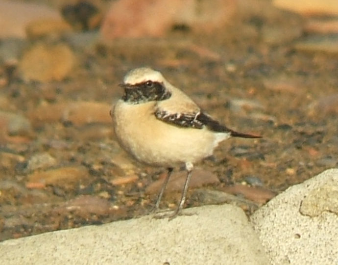 Oenanthe deserti, male in winter plumage, Newbiggin, Northumberland